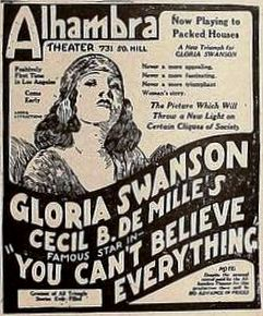 Display ad for the American drama film You Can't Believe Everything (1918) with Gloria Swanson, on page 4312 of the May 22, 1920 Motion Picture News.